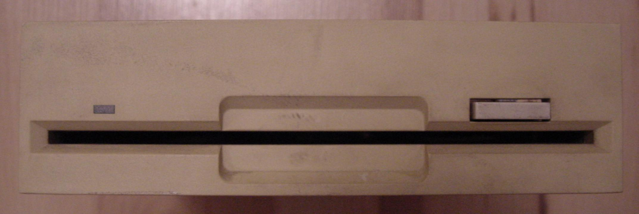 1.2 MB floppy disk drive